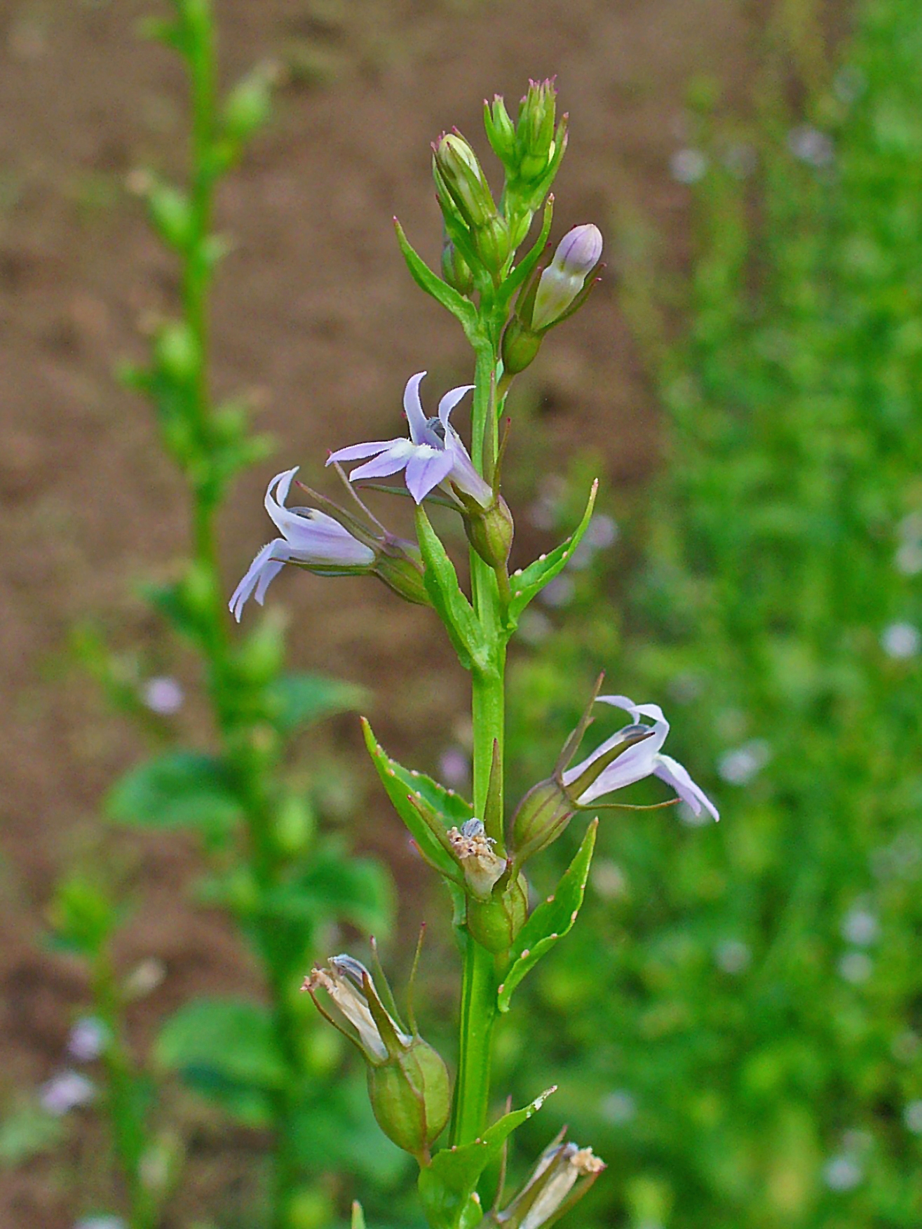 Lobelia inflata, Campanulaceae, Indian Tobacco, inflorescence. The whole, fresh, blooming plant is used in homeopathy as remedy: Lobelia inflata (Lob.)